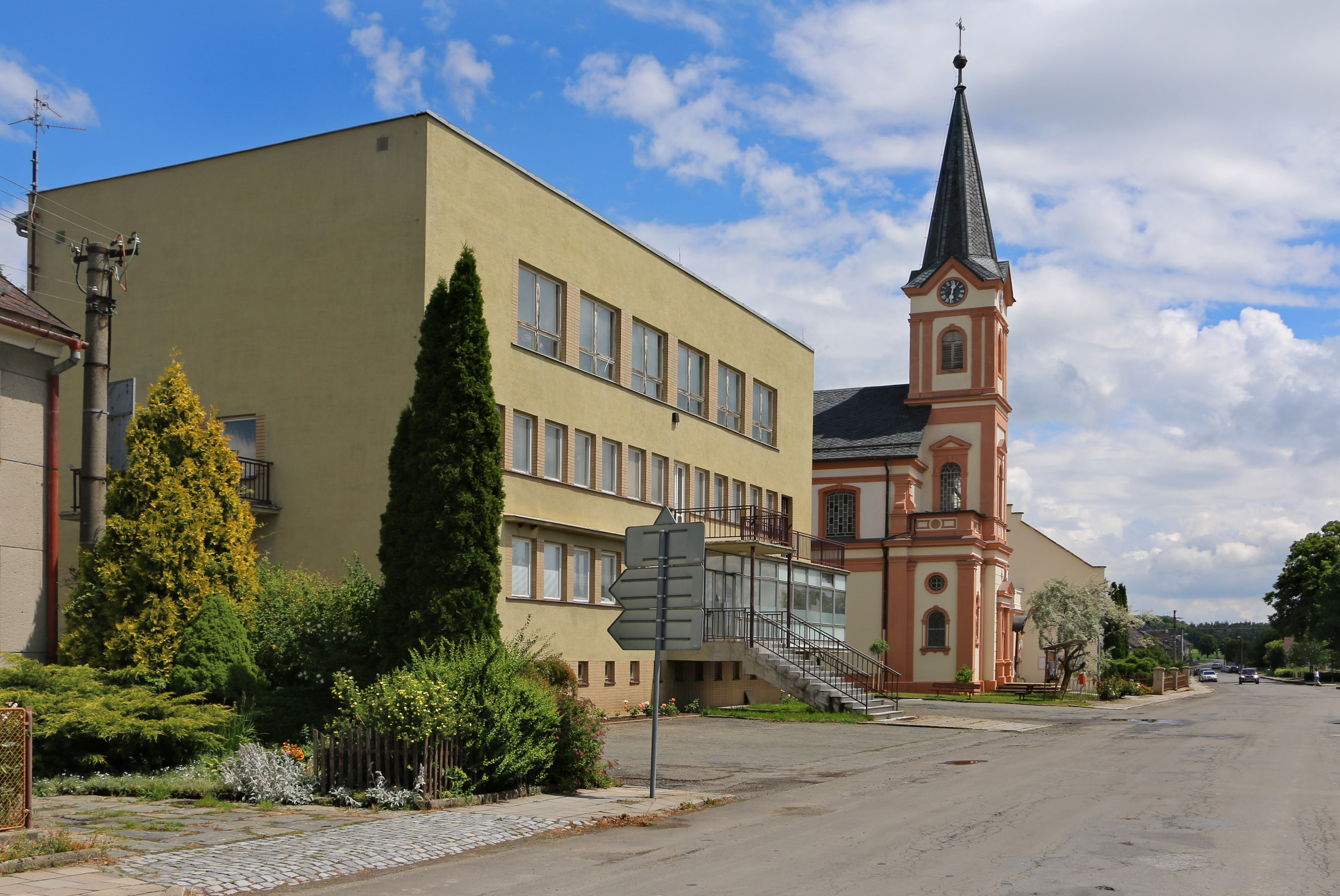 House No 12 and a church in Bílsko village, Czech Republic.